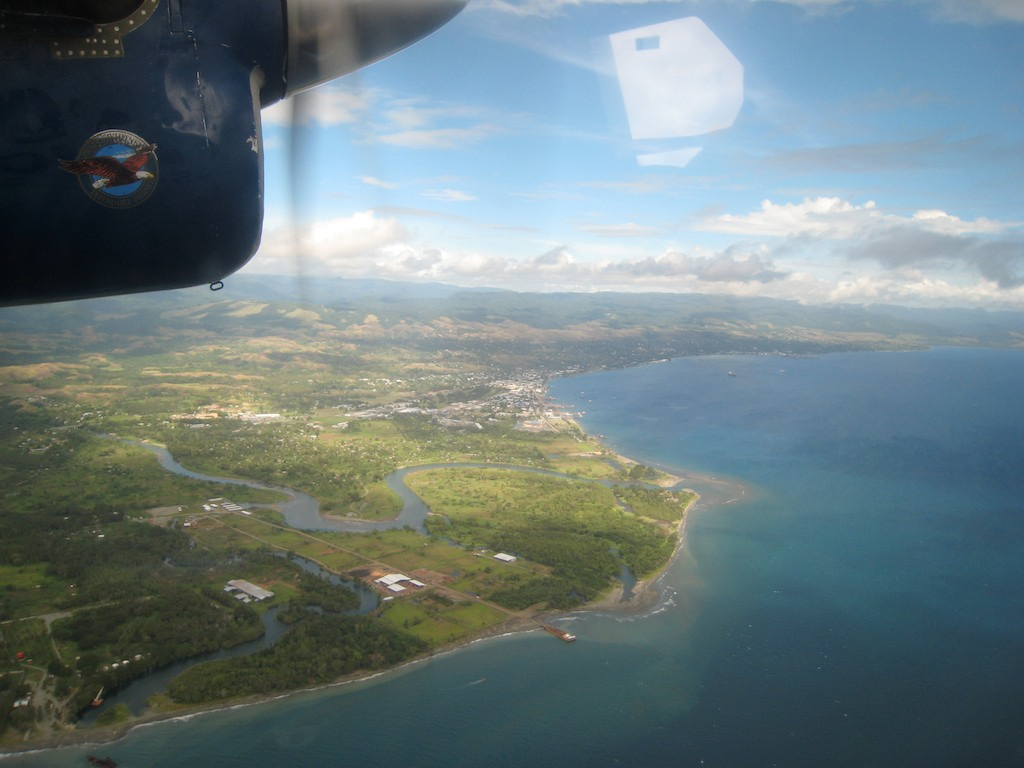 Honiara, Solomon Islands